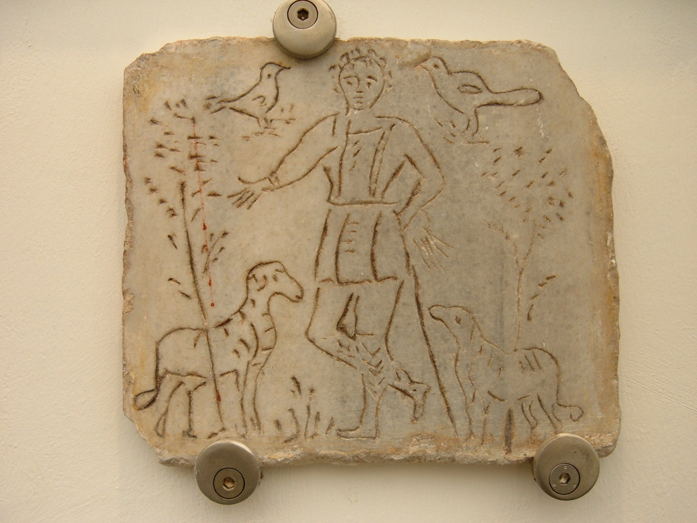 See also this cropped / modified version. See also this. Early christian image of Christ as the Good Shepherd (Fourth Century A.D.), Museo Epigrafico, Rome (Foto: Kleuske)